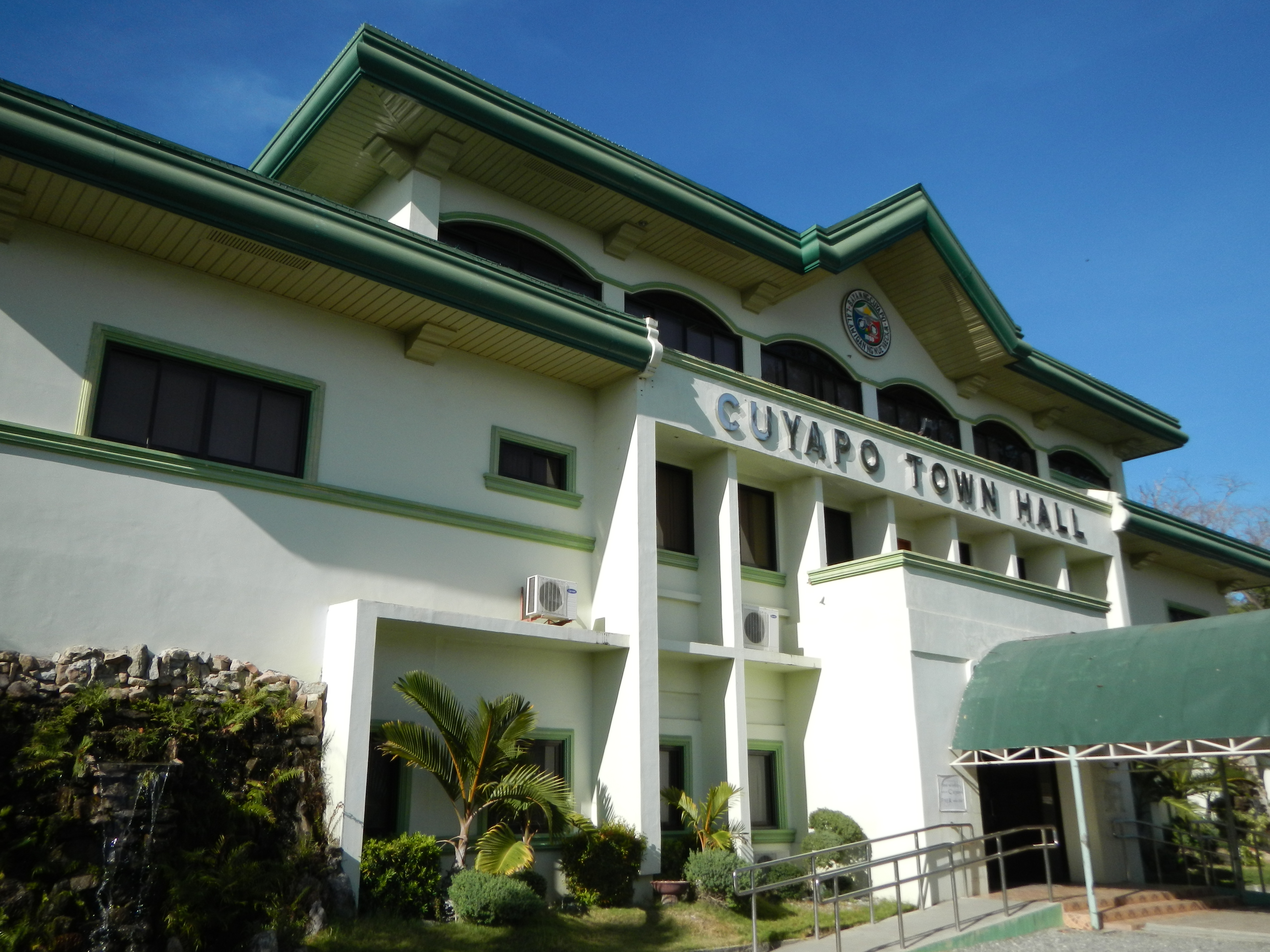 Cuyapo, Nueva Ecija[1] is a first class municipality in the province of Nueva Ecija, Philippines. According to the 2010 census, it has a population of 59,396 people. Landmark - Apolinario Mabini Marker (Cuyapo) - Site of the arrest of Philippine hero Apolinario Mabini, known as “the sublime paralytic,” by the Americans on December 10, 1899.[2][3]Land Area: 215.73 km² ZIP Code: 3117 Coordinates: 15°46'25"N 120°42'17"E